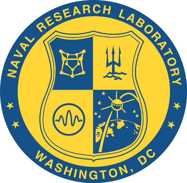 Emblem of the Naval Research Laboratory of the United States Navy